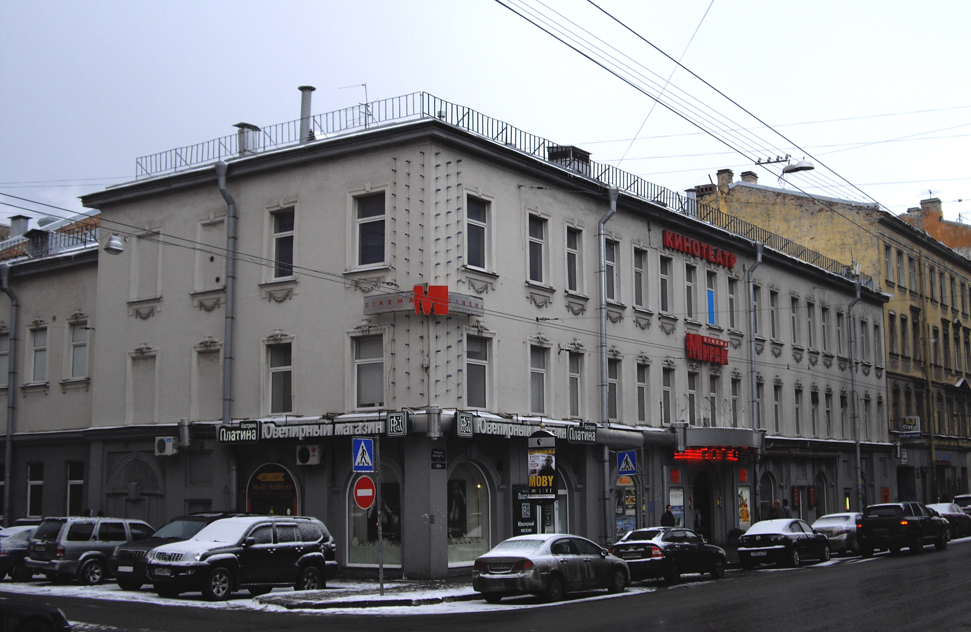 35, Bolshoy Prospekt P.S. (crossing with Shamsheva Street), Saint-Petersburg, Russia.